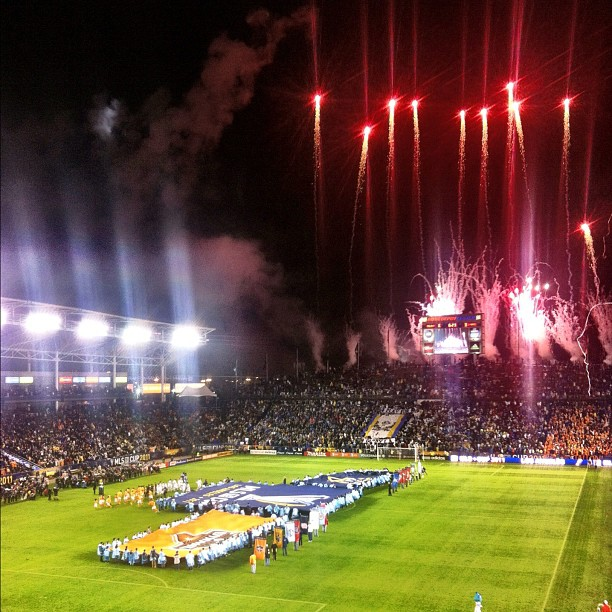 MLS Cup Final